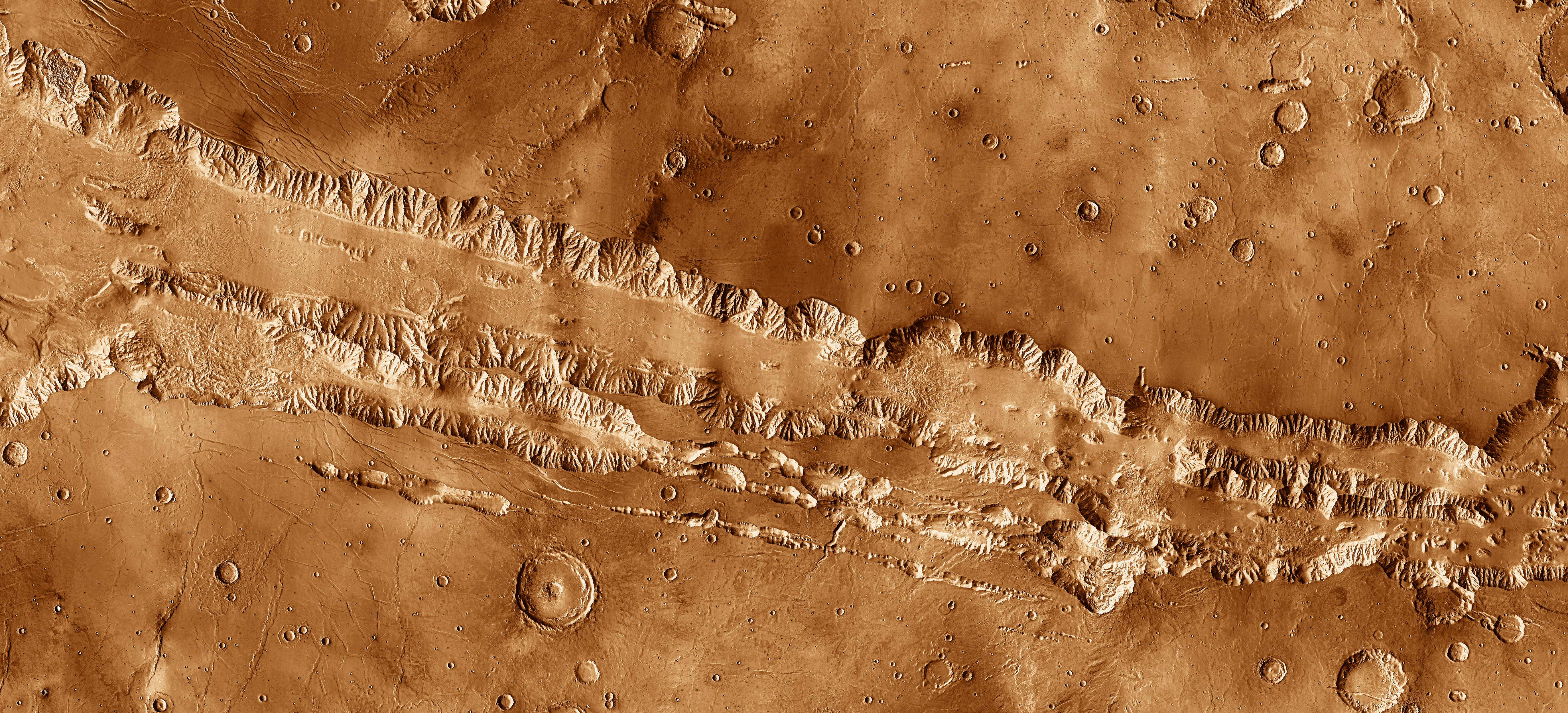 View of Coprates Chasma, with parts of Melas and Capri chasmata visible at the upper left and lower right, respectively, parts of the enormous Valles Marineris canyon system on Mars. This image was obtained by cropping a massive 23,711 × 11,856 pixel mosaic of NASA images, and adjusting in hue and saturation. The original caption for the mosaic reads in part as follows: This mosaic image of Valles Marineris - colored to resemble the martian surface - comes from the Thermal Emission Imaging System (THEMIS), a visible-light and infrared-sensing camera on NASA's Mars Odyssey orbiter. Mars Odyssey was built by Lockheed Martin and the mission is operated by the Jet Propulsion Laboratory. Built from more than 500 daytime infrared photos, the mosaic shows the whole valley in more detail than any previous composite photo. Despite the valley's huge extent - including its western extension through Noctis Labyrinthus, it reaches some 3,000 kilometers (2,000 miles) long - the smallest details visible in the image are about the size of a football field: 100 meters (328 feet).